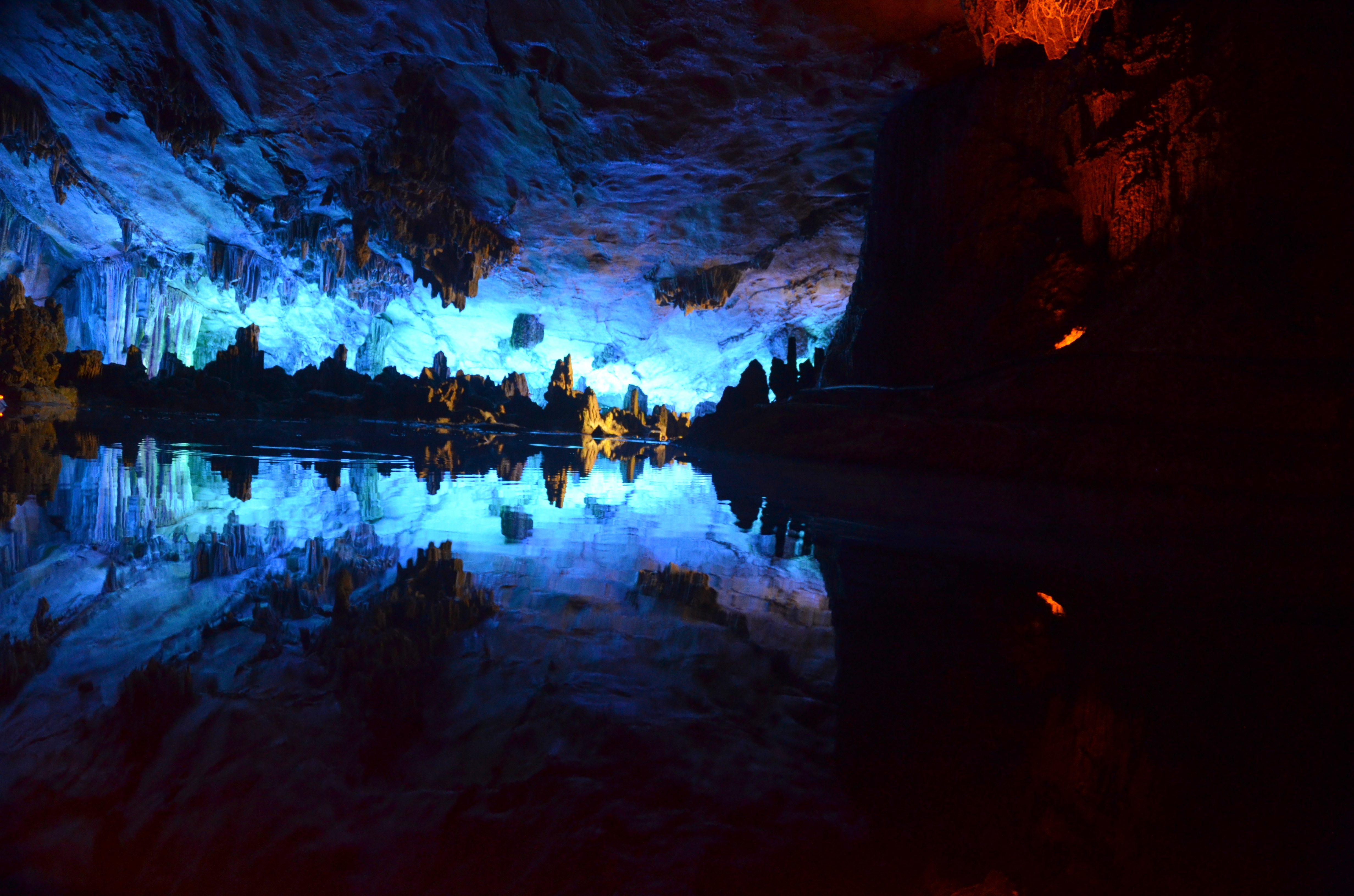 A lake inside the Reed Flute Cave in Guilin (China), artificially illuminated